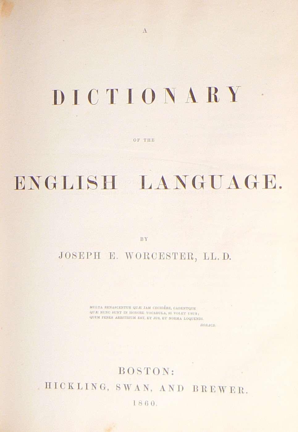 Title page of an 1860 edition of Worcester's Dictionary by Joseph Emerson Worcester.